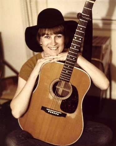 Gail Davies promotional photo with her Martin D-28 guitar